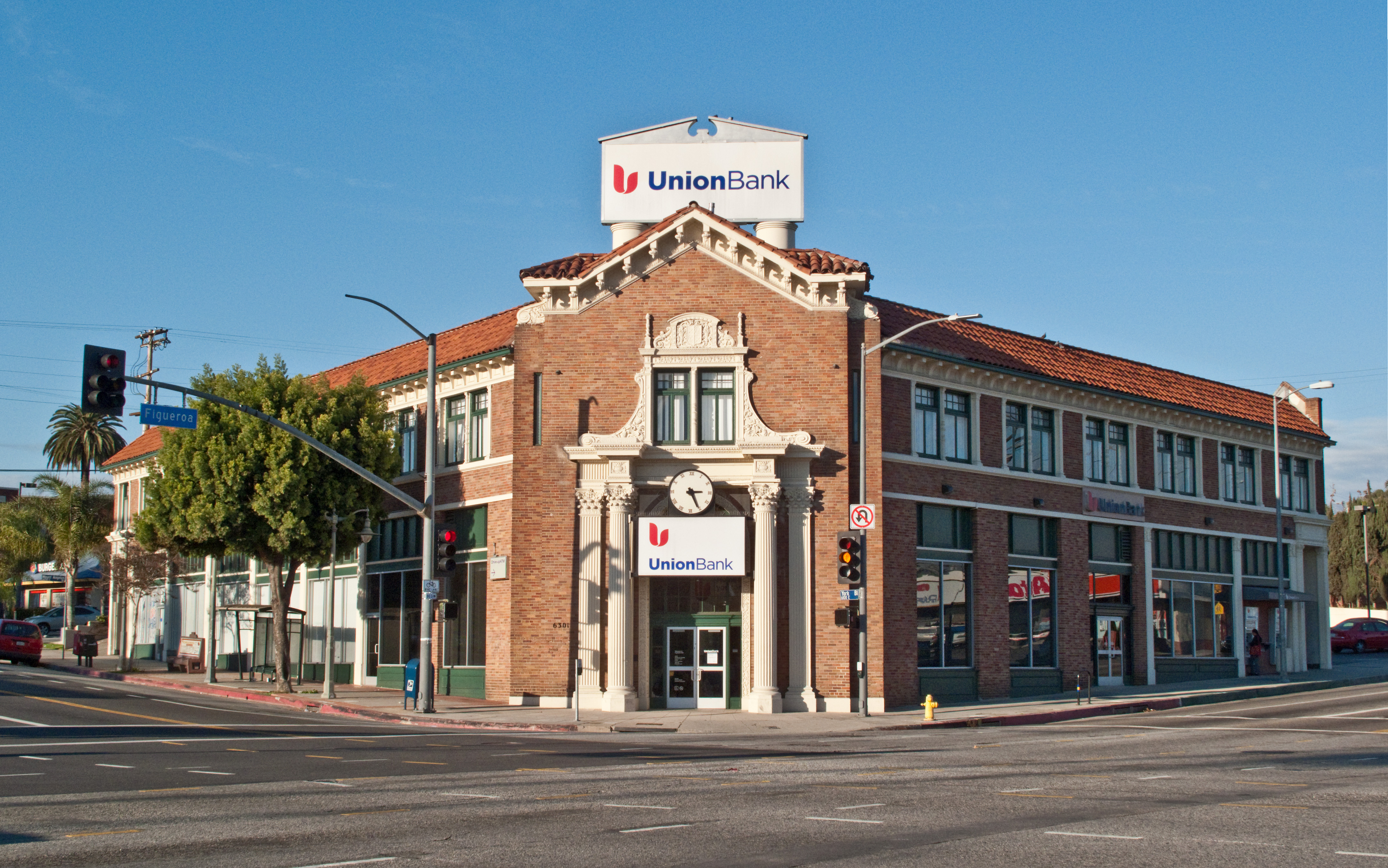 Arroyo Seco bank building, at the northwest corner of York and Figueroa Streets, in the Highland Park neighborhood of Los Angeles, California. The building currently houses a branch of Union Bank. Los Angeles Historic-Cultural Monument #492.